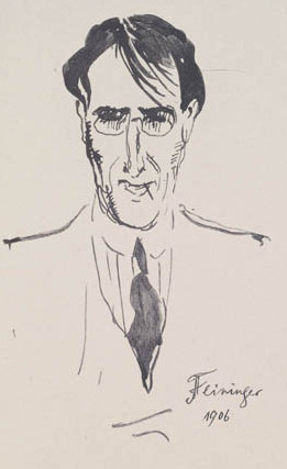 Description: Fuenfundneunzig Koepfe von Orlik /, Mit einem Vorwort von Max Osborn. This is a page from the book showing a portrait of Lionel Feininger. Read the entire book Creator: Orlik, Emil, 1870-1932 Creator: Osborn, Max, 1870-1946 Object Origin: Berlin, published by Verlag Neue Kunsthandlung Medium: Artist's illustrated books Dimensions: 26 centimeters Persistent URL: Repository: Leo Baeck Institute, 15 West 16th Street, New York, NY 10011 Call Number: r ND 588 O_73 F8 Rights Information: No known copyright restrictions; may be subject to third party rights. For more copyright information, click here. See more information about this image and others at CJH Digital Collections. Digital images created by the Gruss Lipper Digital Laboratory at the Center for Jewish History